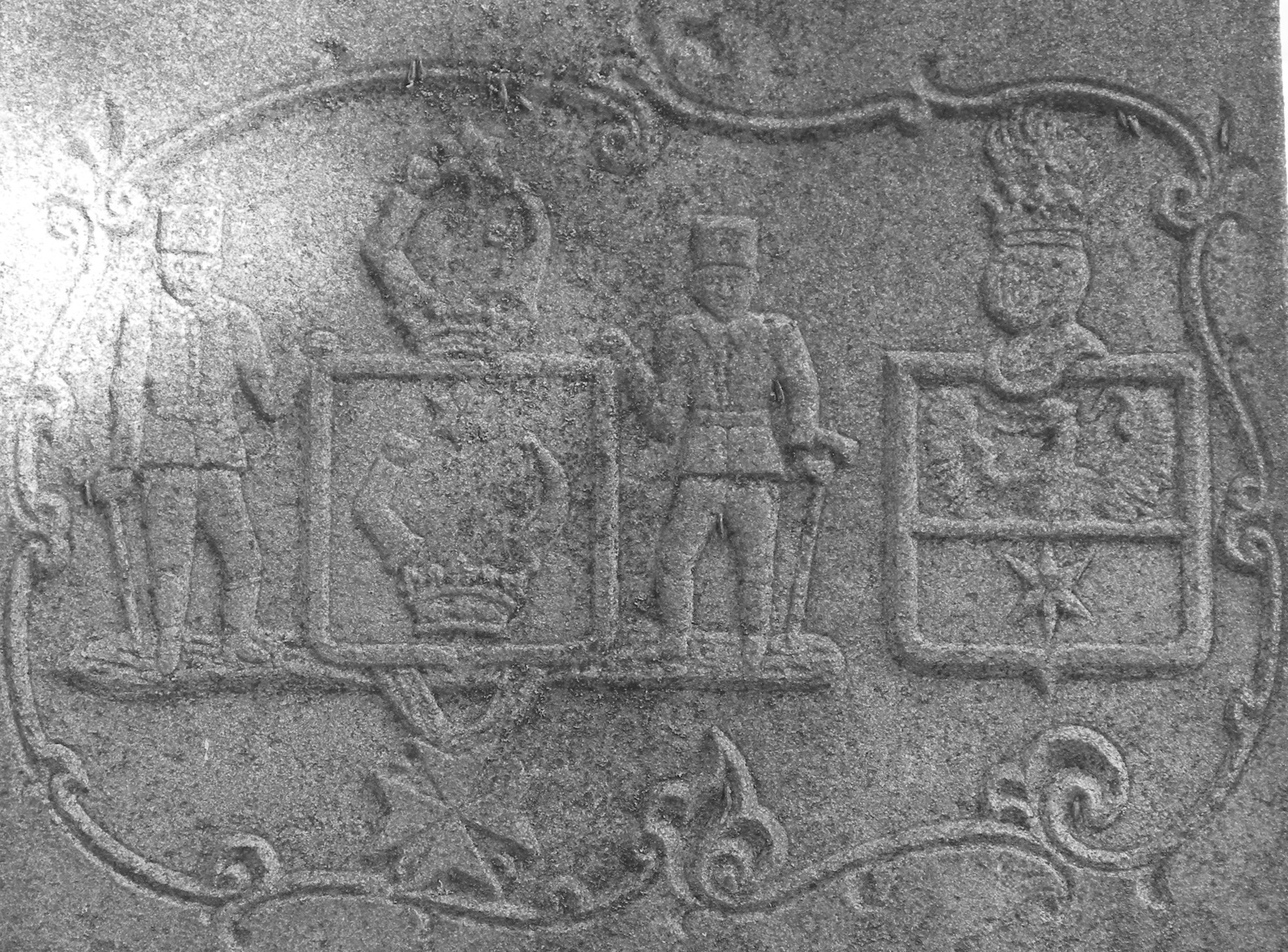 Coats of arms of Márton Szentiványi (1815 - 1895) and Adél Palugyay (1825 - 1879). Cemetery, Liptovský Ján, Slovakia. Inscription on the gravestone "Szentiváni // SZENT-IVÁNYI MÁRTON // V. b. t. Tanácsos, // Liptó megye Főispánja, // a d. i. egyházkerület Felugyelöje // 1815 – 1895 // és neje // Kis-palugyay és Bodafalvi // PALUGYAY ADÉL // 1825 – 1879. // Legyen áldott emlékük!"